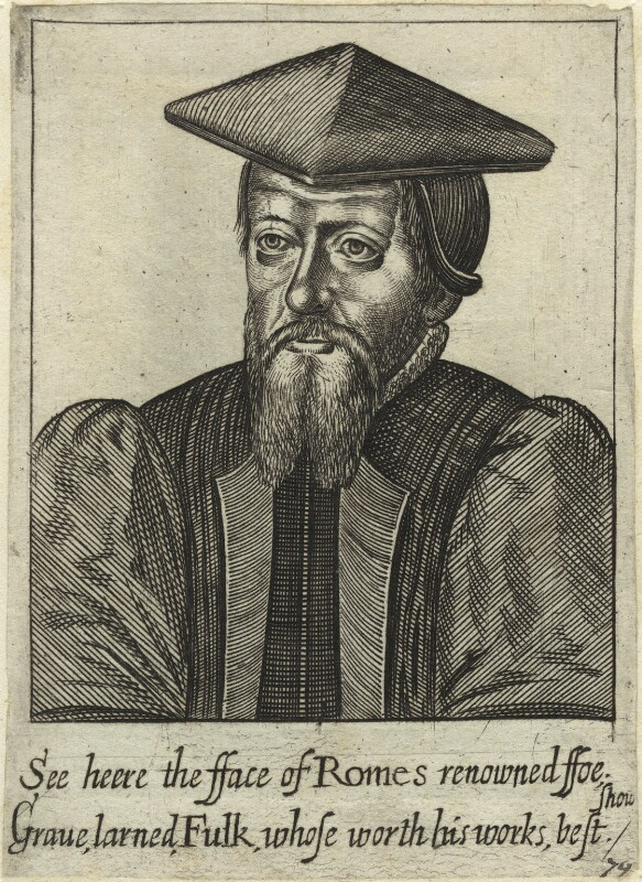 William Fulke, Master of Pembroke College, Cambridge